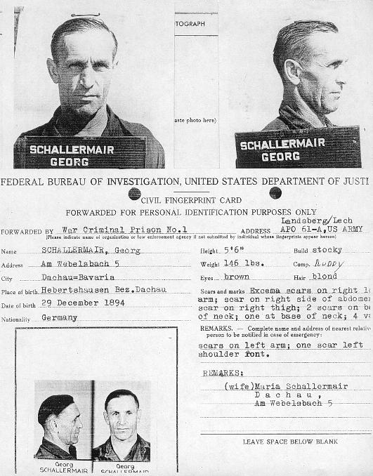 The arrest card of Georg Schallermair. Schallermair (29. December 1894 - 7. June 1951) was SS-Hauptscharführer (SS-Master-Sergeant) at subcamp Muehldorf August 1944 until 1945. In the Dachau Camp Trial (part of the Dachau Trials) he was sentenced to death by hanging. He was executed at Landsberg prison.